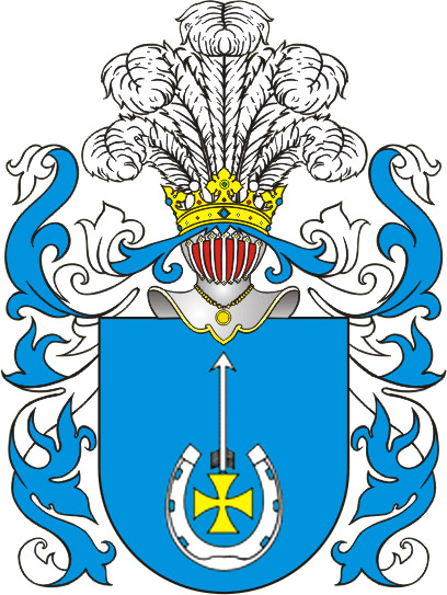 Bialynia Polish coat of arms